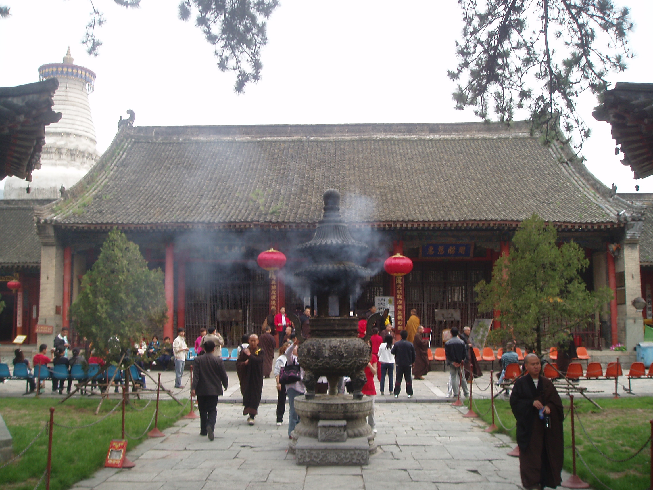 Grand Hall in the Xiantong Temple, Wutaishan, China.